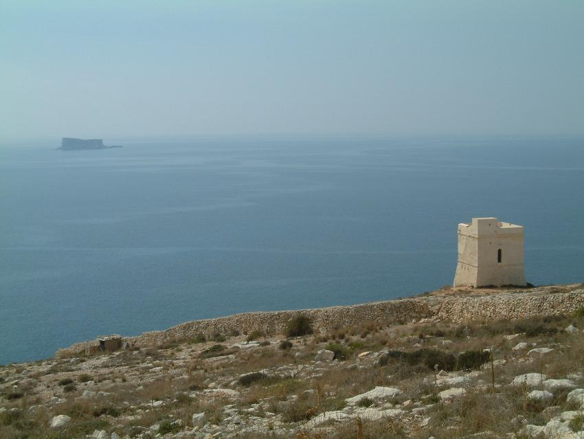 Hamrija Tower with Filfla island in the background, photo taken from cliffs directly to the East of the tower. Photo by Joseph J. Zarb